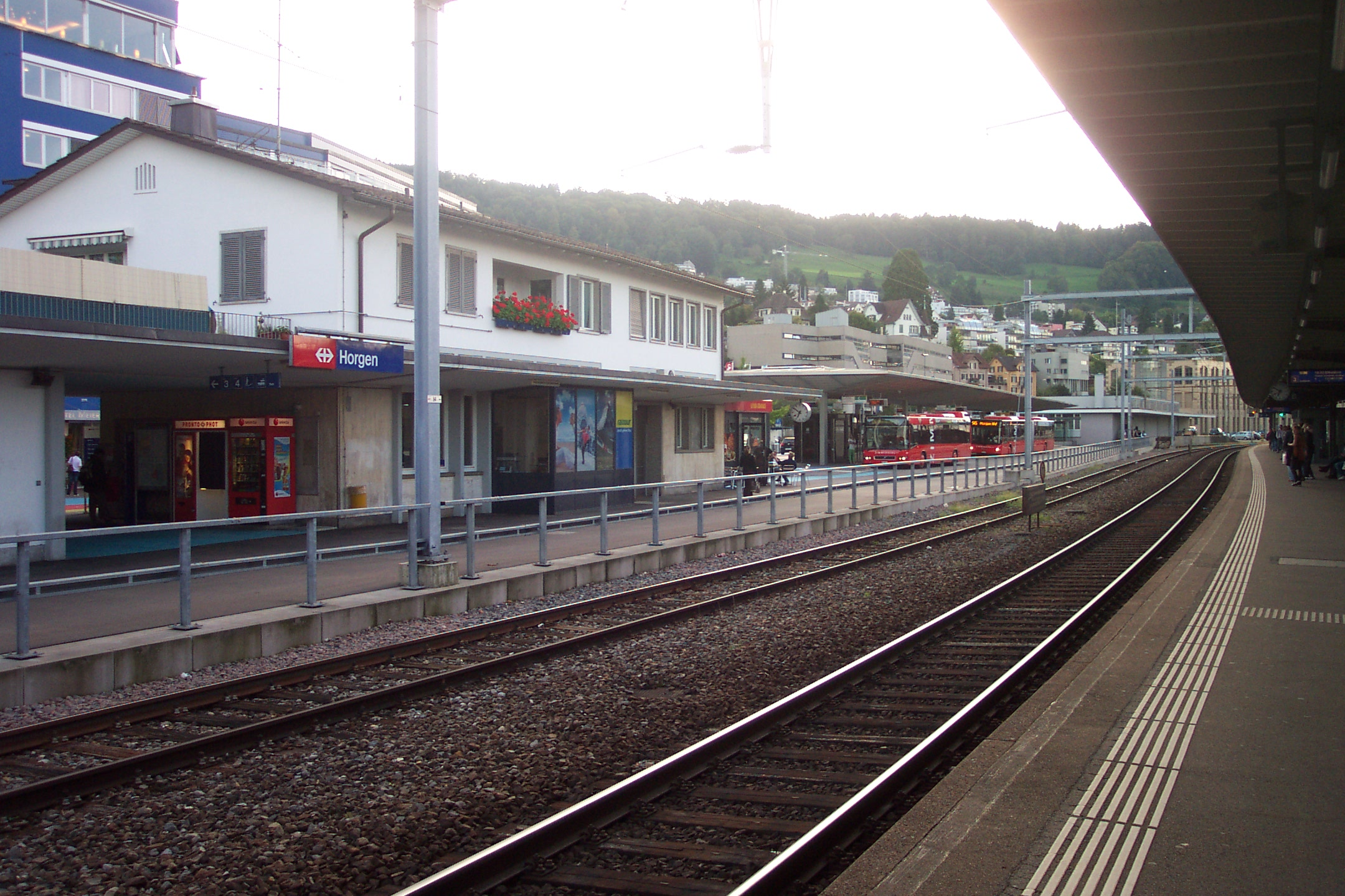 Horgen railway station, showing interchange with buses. For more information, see the Wikipedia article Horgen railway station.